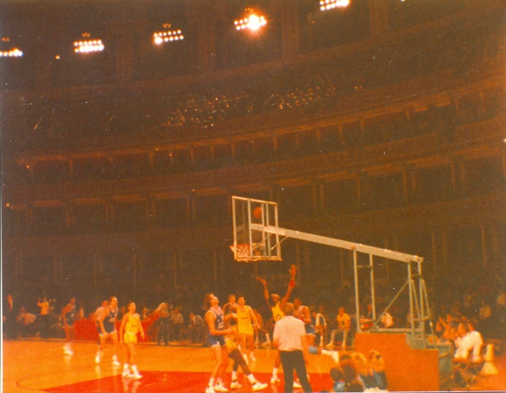 Portsmouth FC Basketball Club (in blue) play Kingston Kings in the National Cup final at the Royal Albert Hall in London on December 14th 1987. The Portsmouth players standing under the basket are Rich Strong (left) and Alan Cunningham.